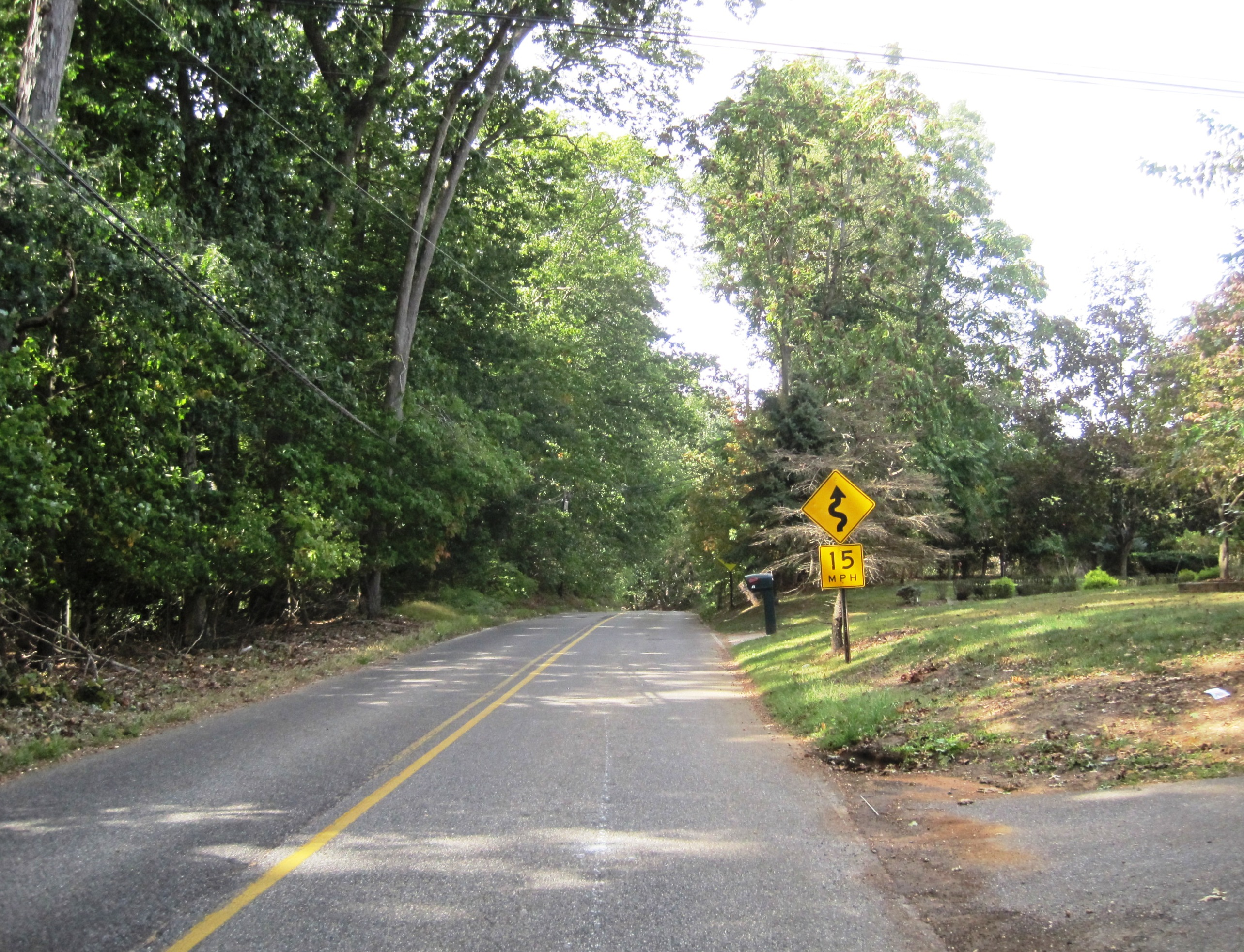 Photo showing Oakland Mills, New Jersey, an unincorporated community within Manalapan Township. Photo taken along westbound Mill Road.